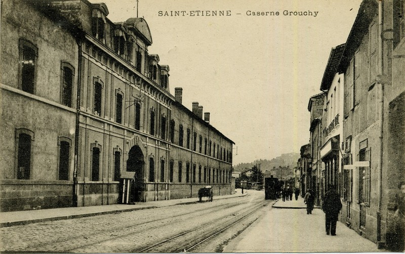 Dragoon barracks in Saint-Etienne (France) about 1880